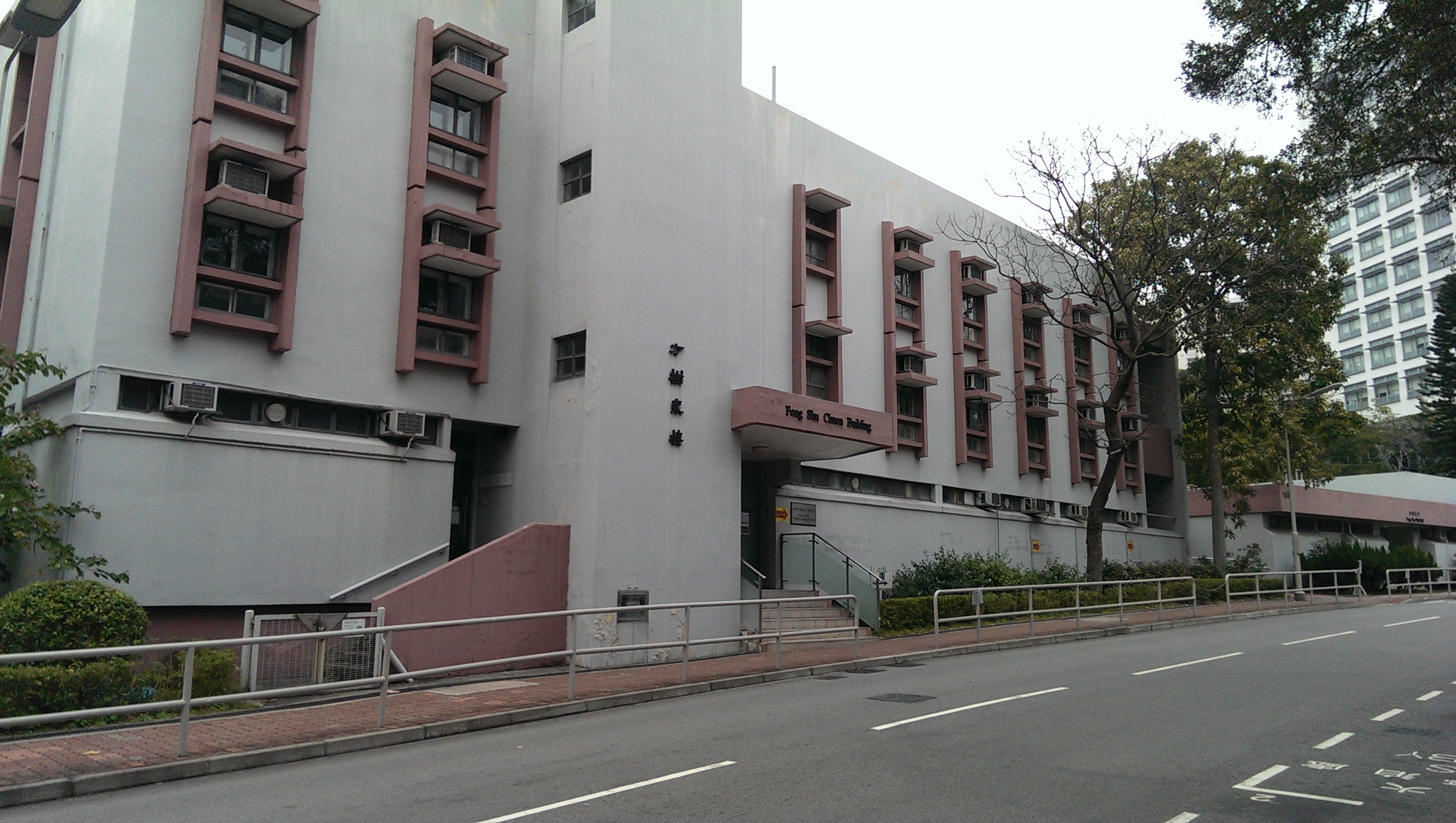 Yale-China Chinese Language Centre, The Chinese University of Hong Kong, Fong Shu Chuen Building, Shatin, New Territories, Hong Kong 粵語: 香港中文大學 雅禮中國語文研習所 - 香港 新界 沙田 方樹泉樓